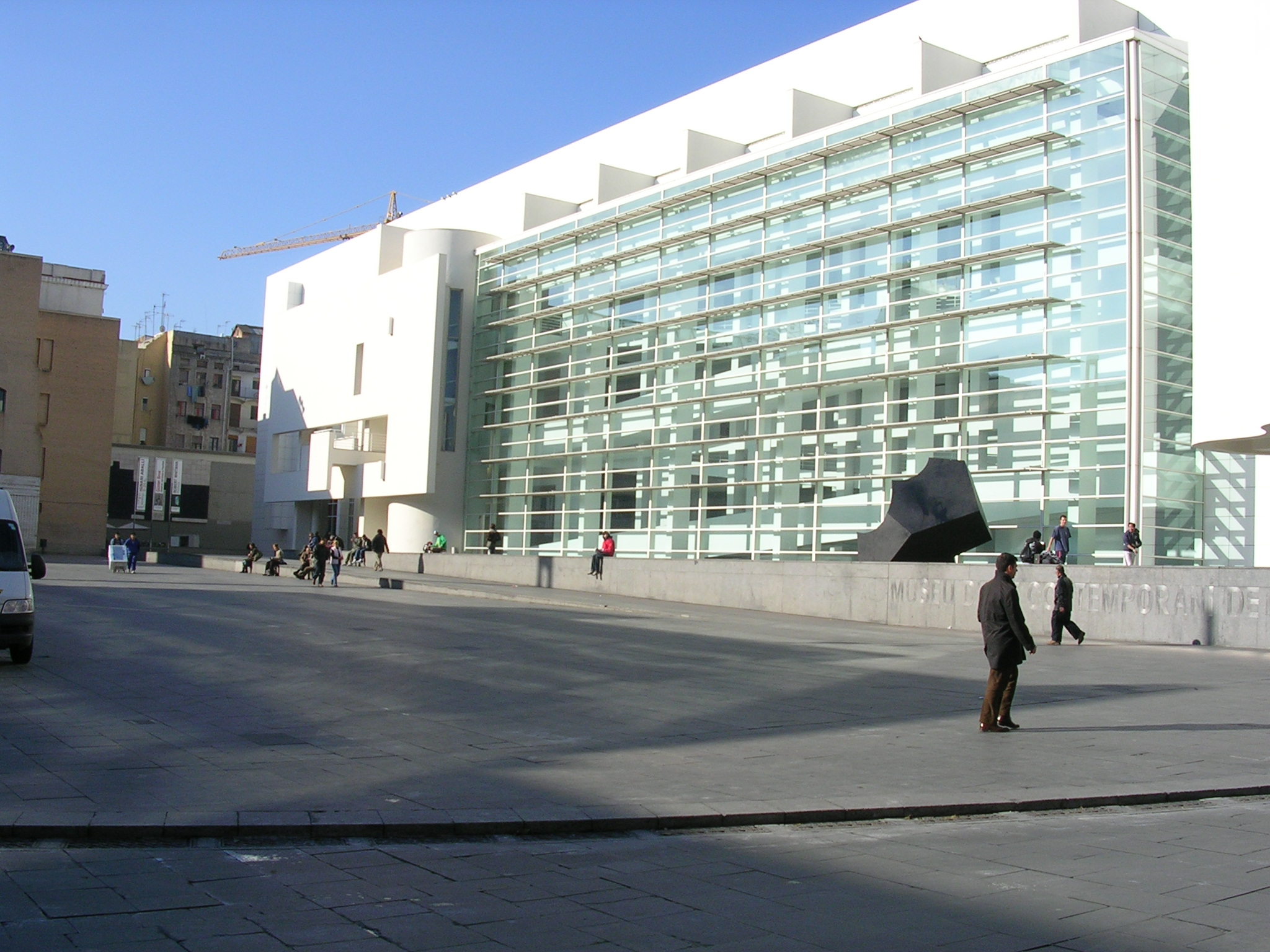 MACBA (Museu d'Art Contemporani de Barcelona) in Plaça dels Àngels, Barcelona.